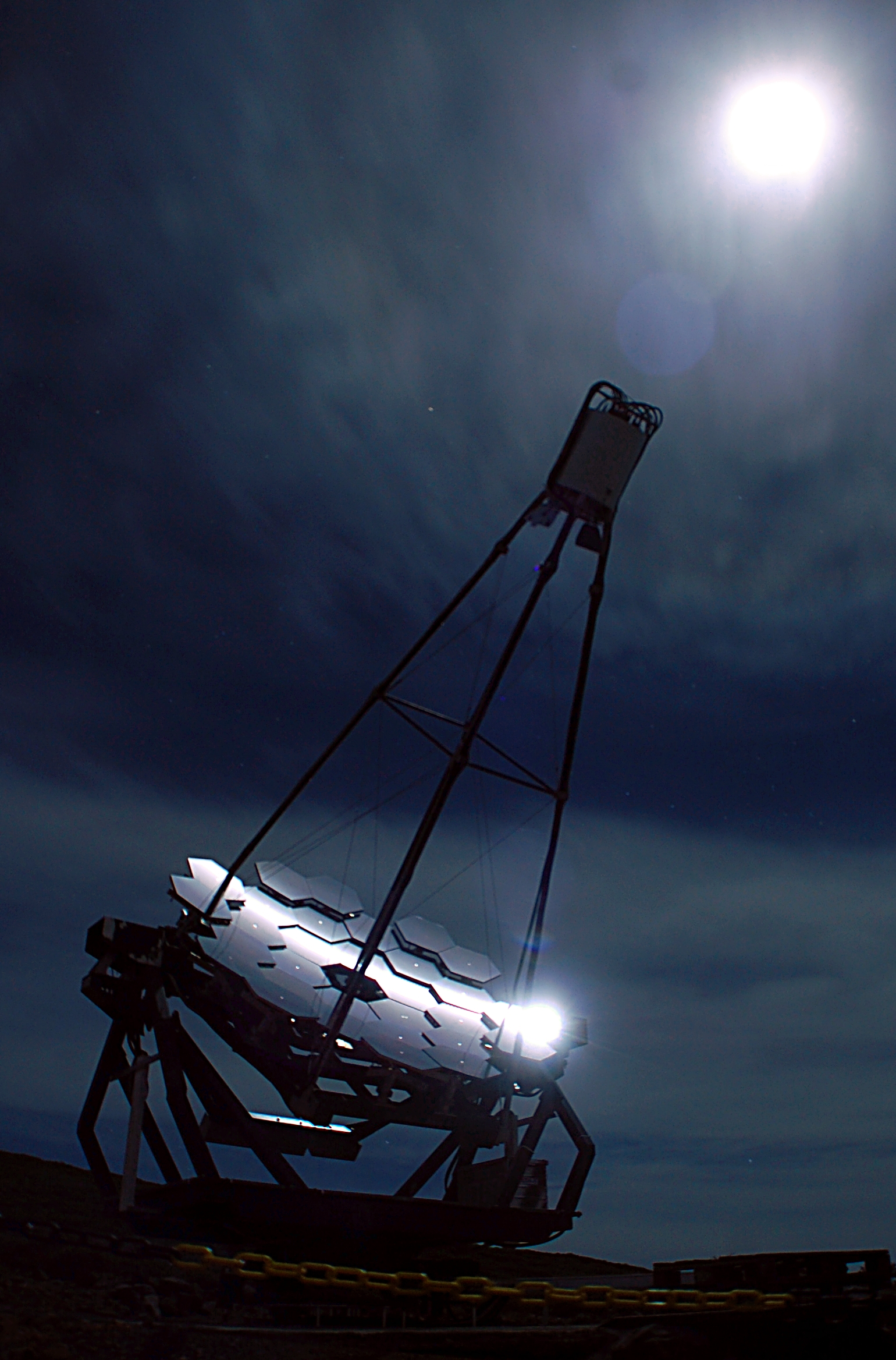 First G-APD Cherenkov Telescope during operation at almost full moon.